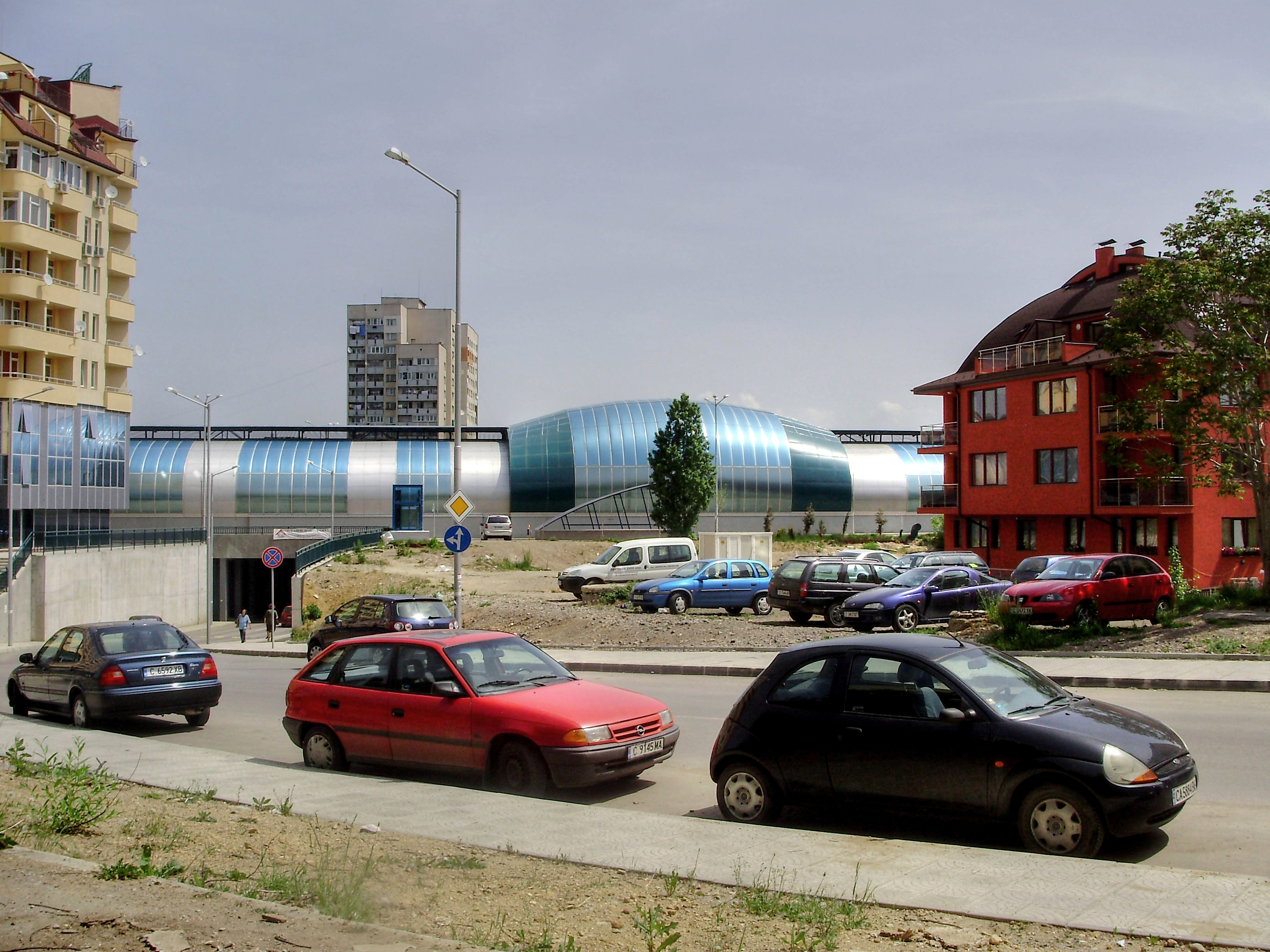 metrostation Musagenitsa